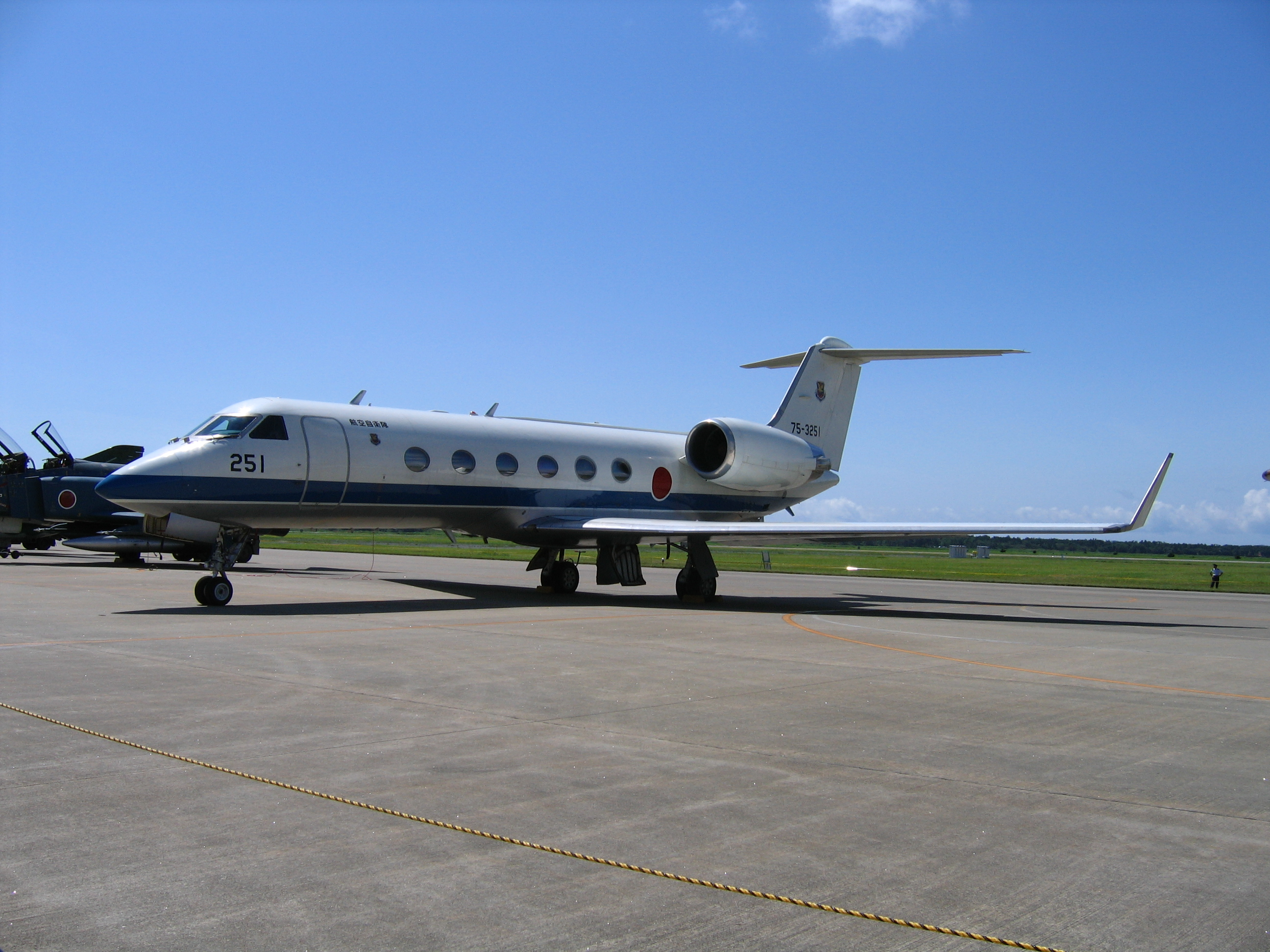 JASDF U-4 Transport Aircraft at the JASDF Matsushima Airbase Airshow 2006